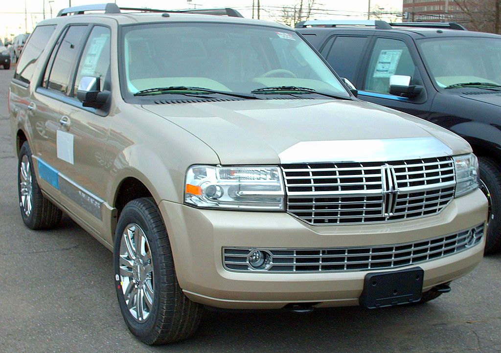 2007 Lincoln Navigator photographed in Montreal, Quebec, Canada.